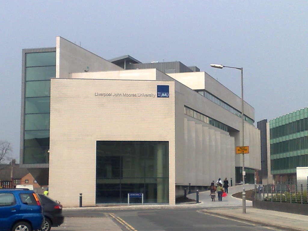 LJMU Art and Design Building